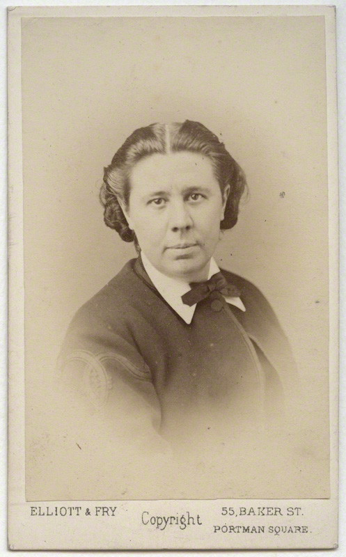 Photograph of Emily Faithfull. Albumen carte-de-visite. 3 5/8 in. x 2 1/4 in. (91 mm x 56 mm) image size.